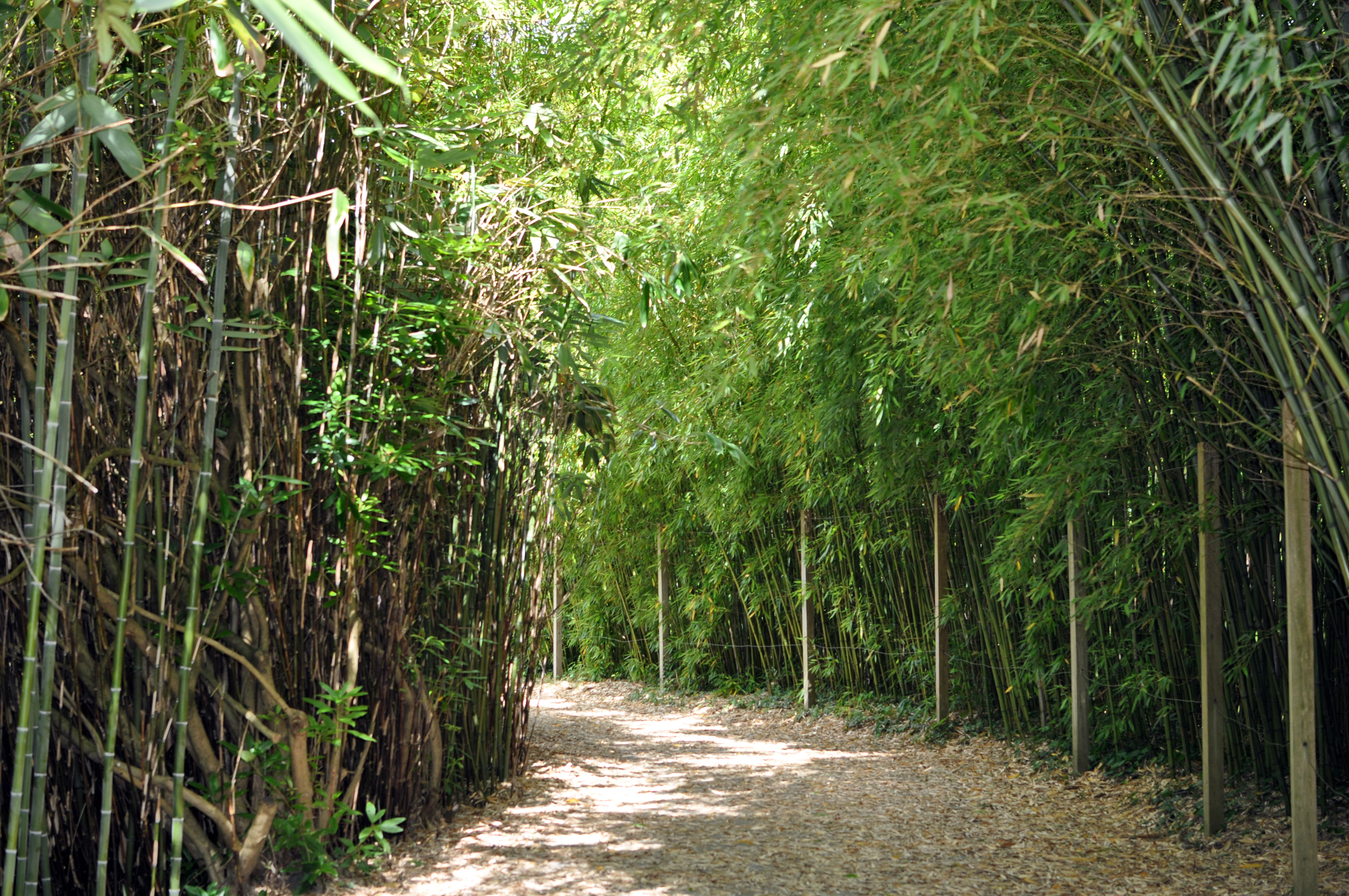 Pleioblastus chino at Conservatoire botanique national de Brest Conservatoire botanique national de Brest Native nameConservatoire botanique national de BrestLocationBrest, FranceCoordinates48° 24′ 10.35″ N, 4° 26′ 53.58″ W Established1975: established, 1978: opened to publicWeb page Authority control : Q2994486 VIAF: 135879850 ISNI: 0000 0000 9261 8684 LCCN: no95047958 WorldCat institution QS:P195,Q2994486